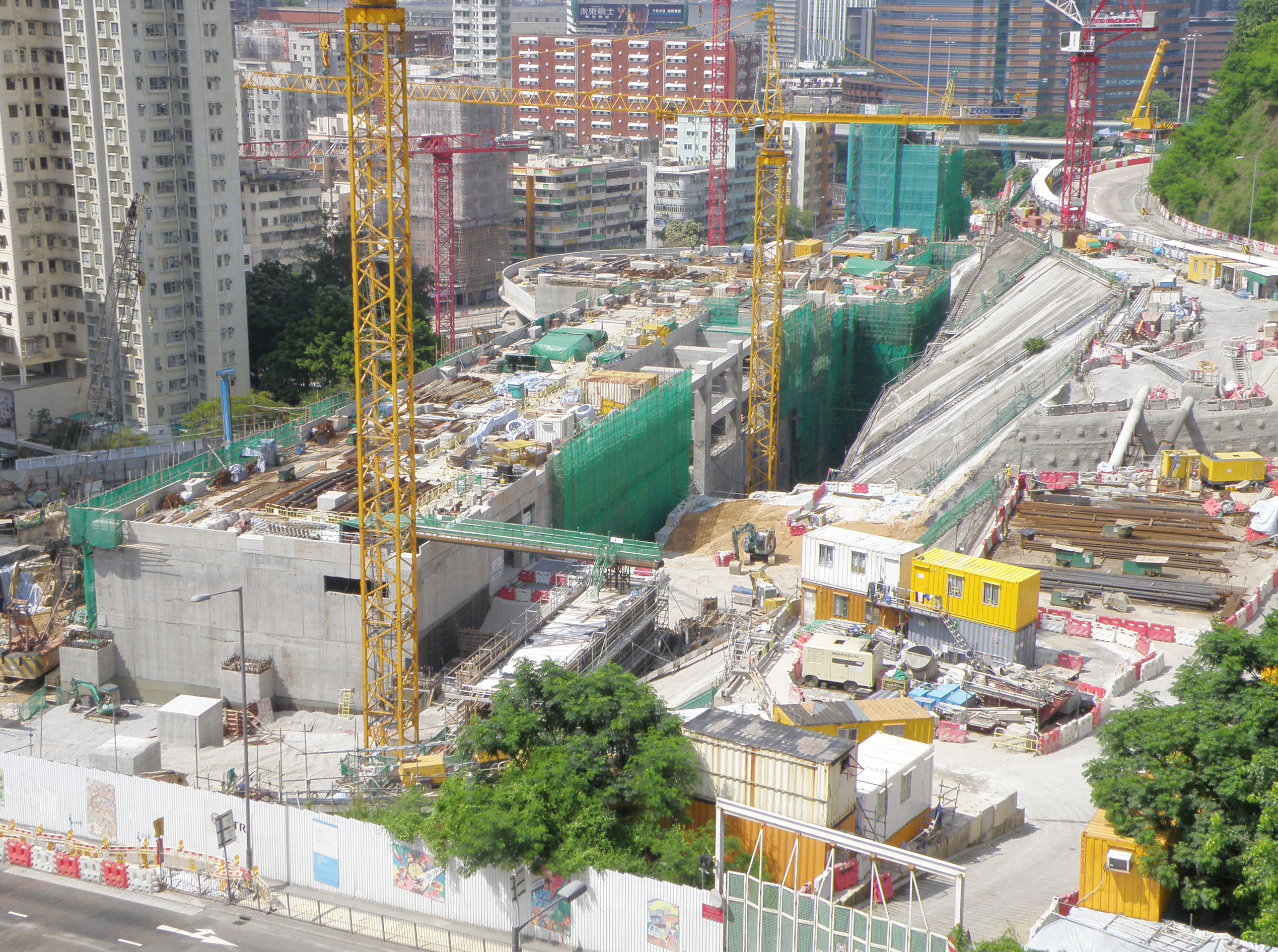 Ho Man Tin Station in Ho Man Tin, Hong Kong.